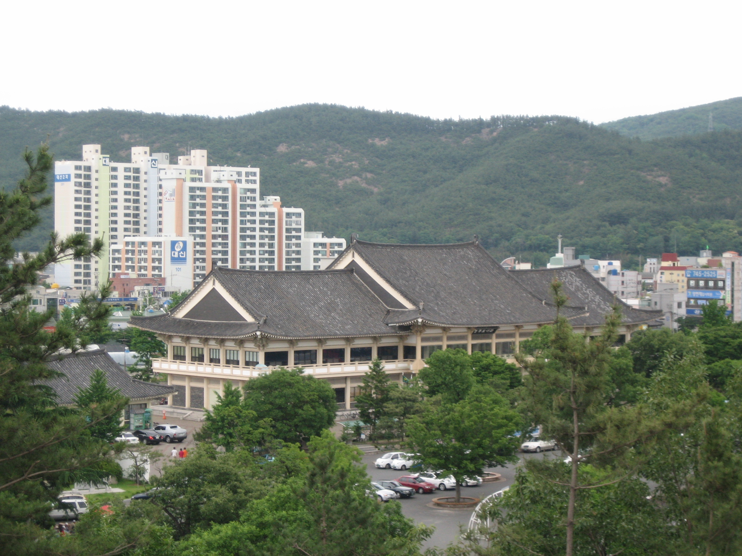 A view of Gyeongju Municipal Library in Hwangseong Park, Gyeongju, North Gyeongsang province, South Korea